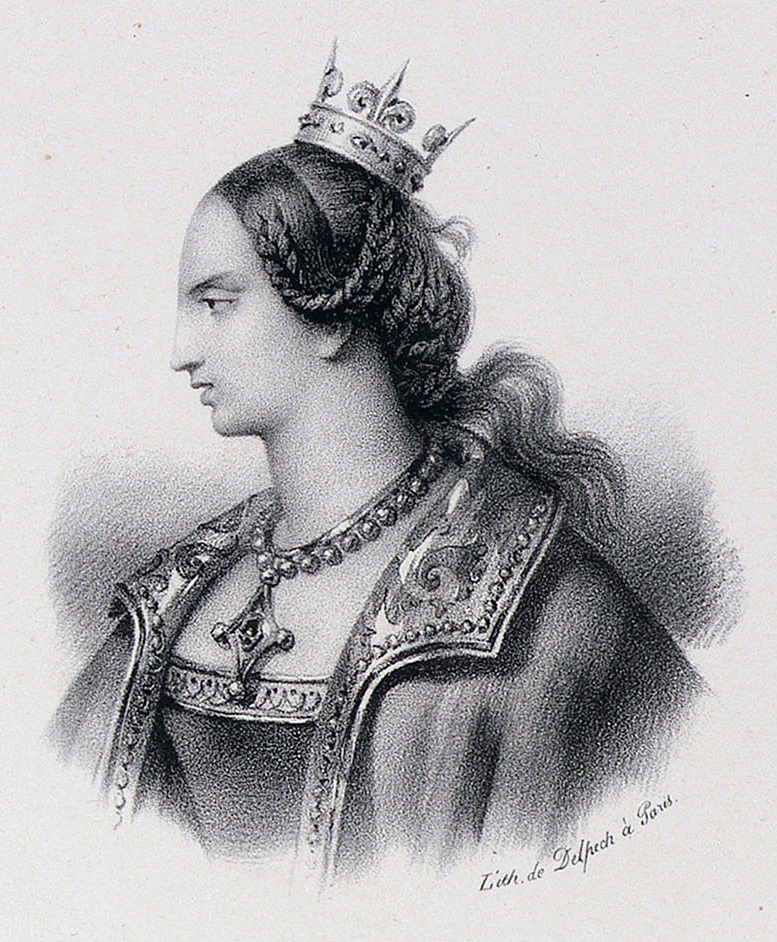 imaginary portrait of Emma of Italy, wife of King Lothair of France